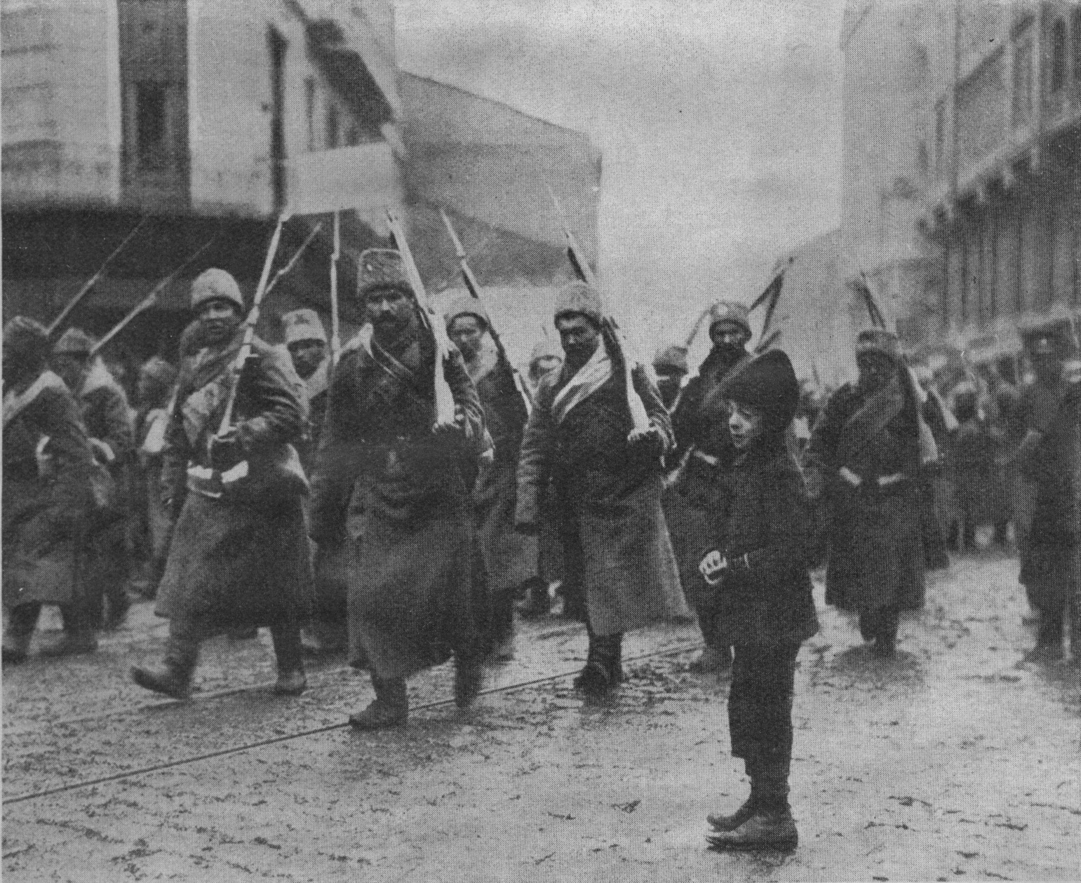 Russian troops entering Lvov. 1914.